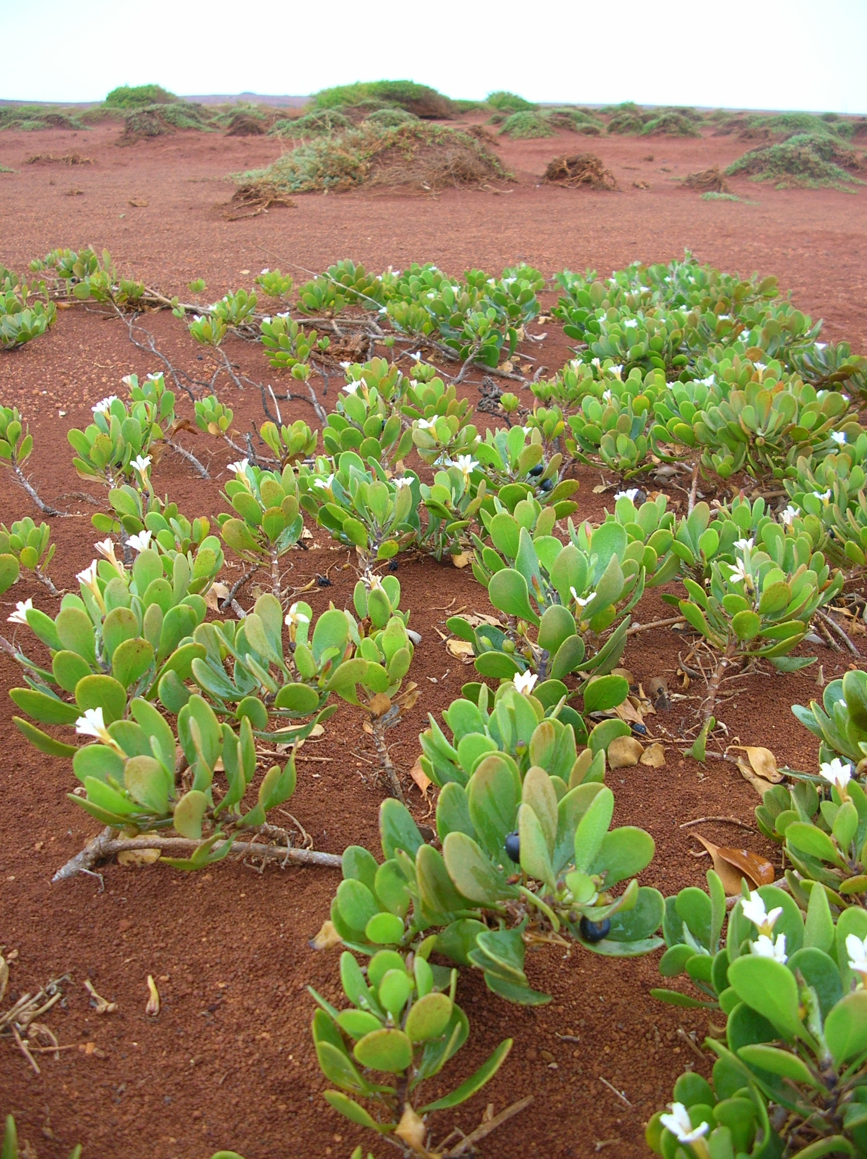 Scaevola coriacea (habit). Location: Kahoolawe, K2